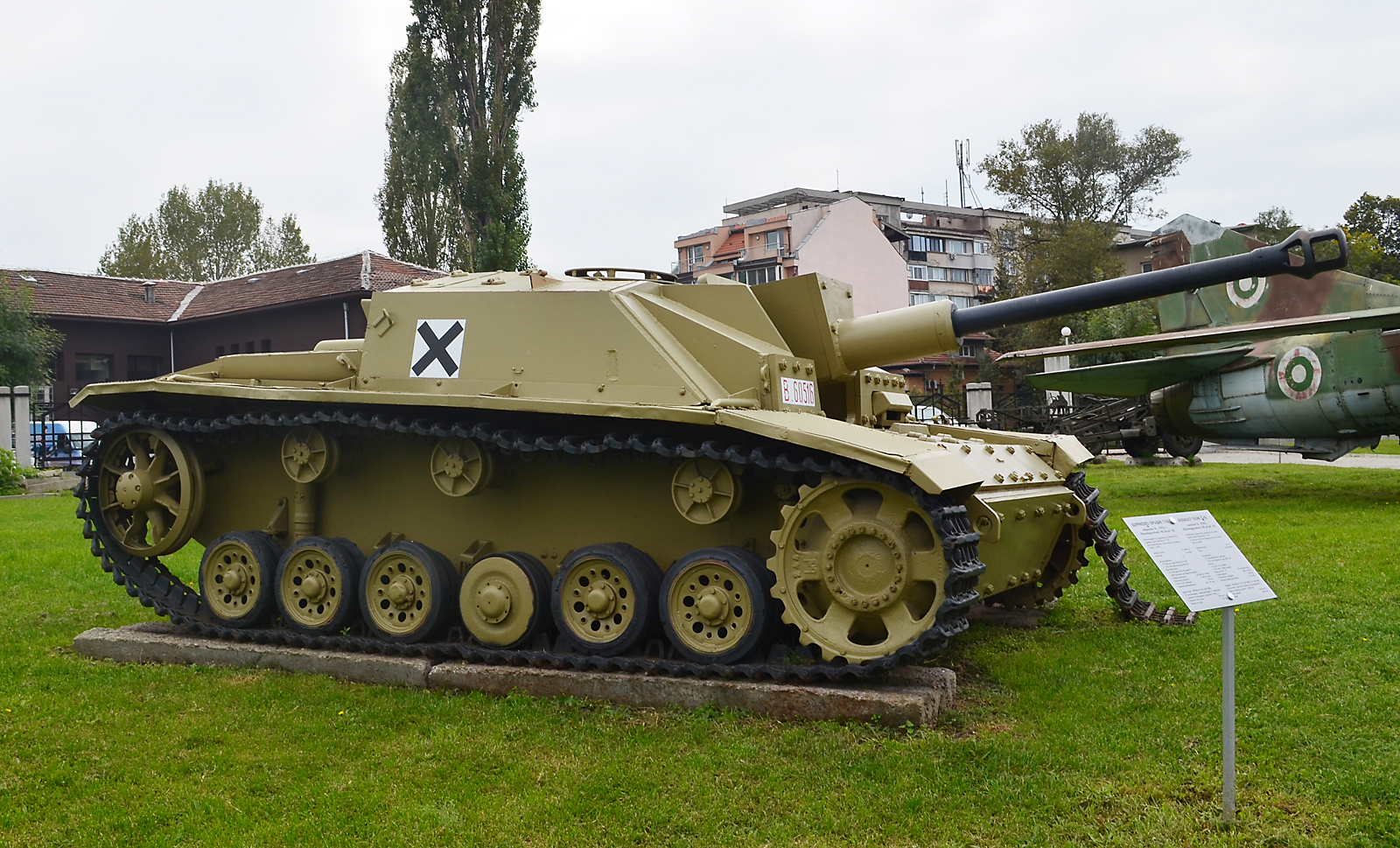 Self-propelled german gun Sturmgeschutz 40, Ausf.G in Military Museum, Sofia, Bulgaria